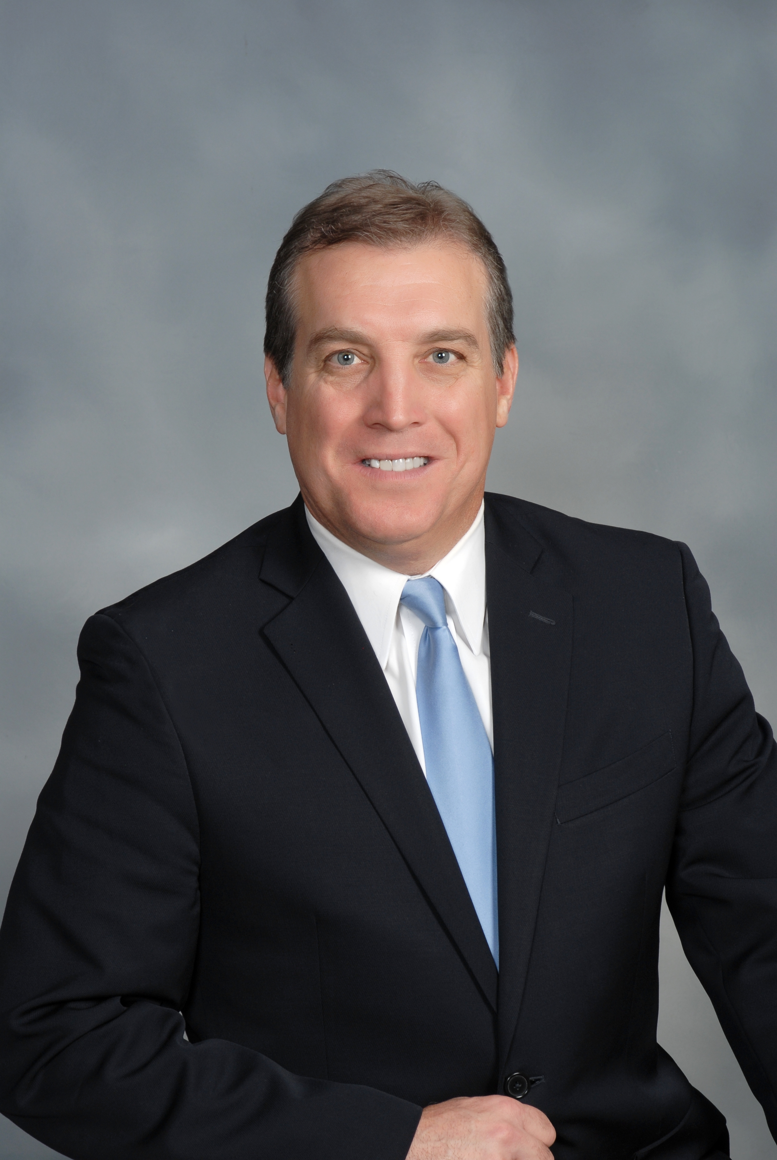 A 2012 portrait of Don Cunningham.